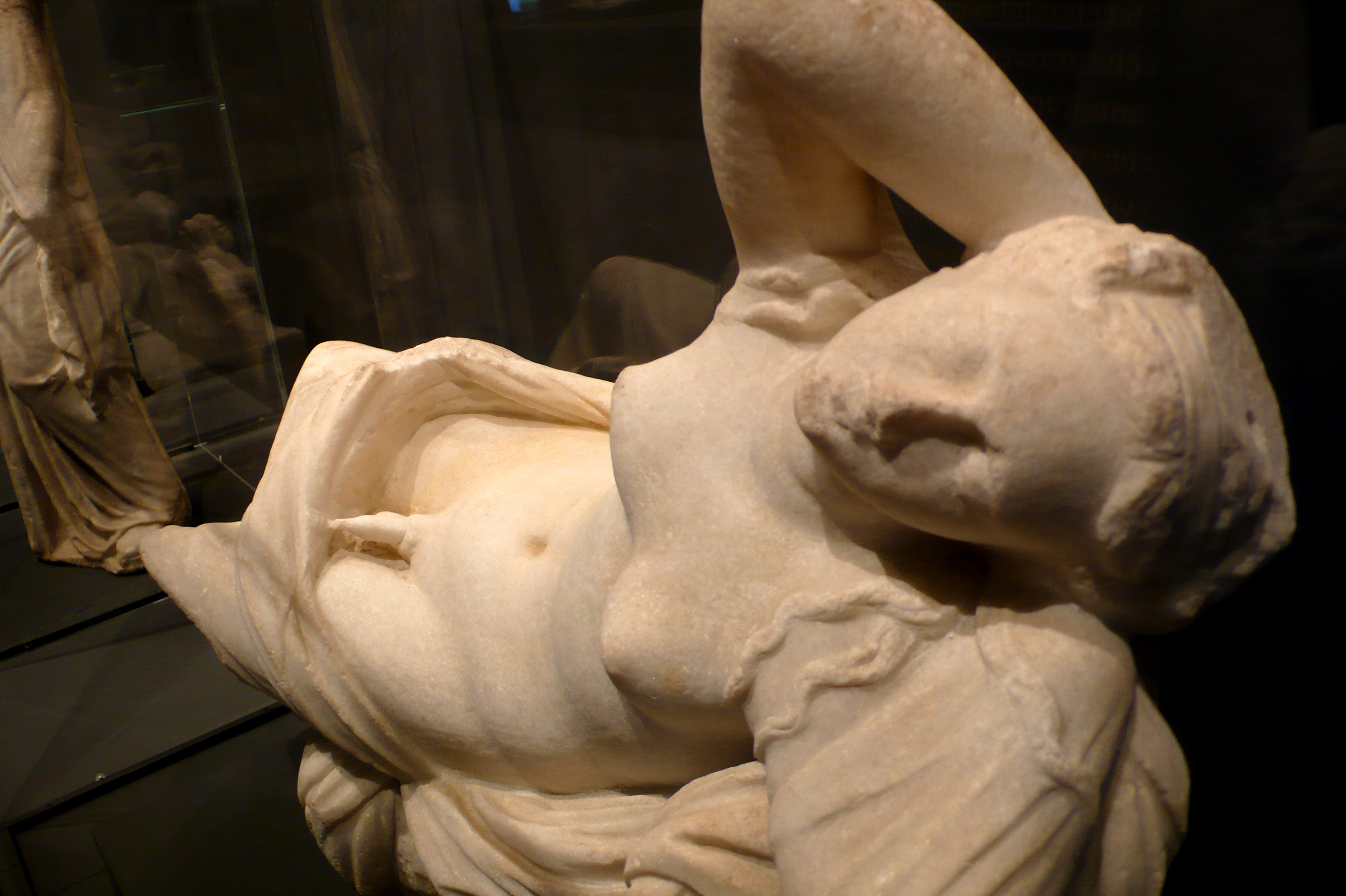 Marble statue of Hermaphroditus found near the south end of the Garden. II.2.2. Room 13, House of Loreius Tiburtinus, Pompeii. SAP inventory number 3021.